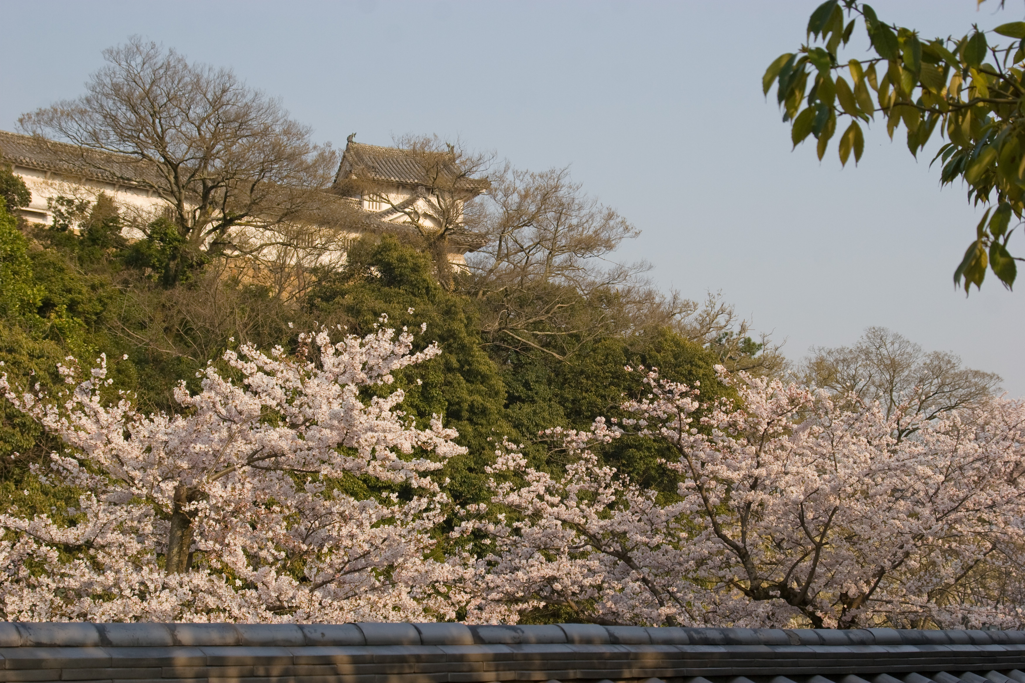 Kokoen 2009-04-08